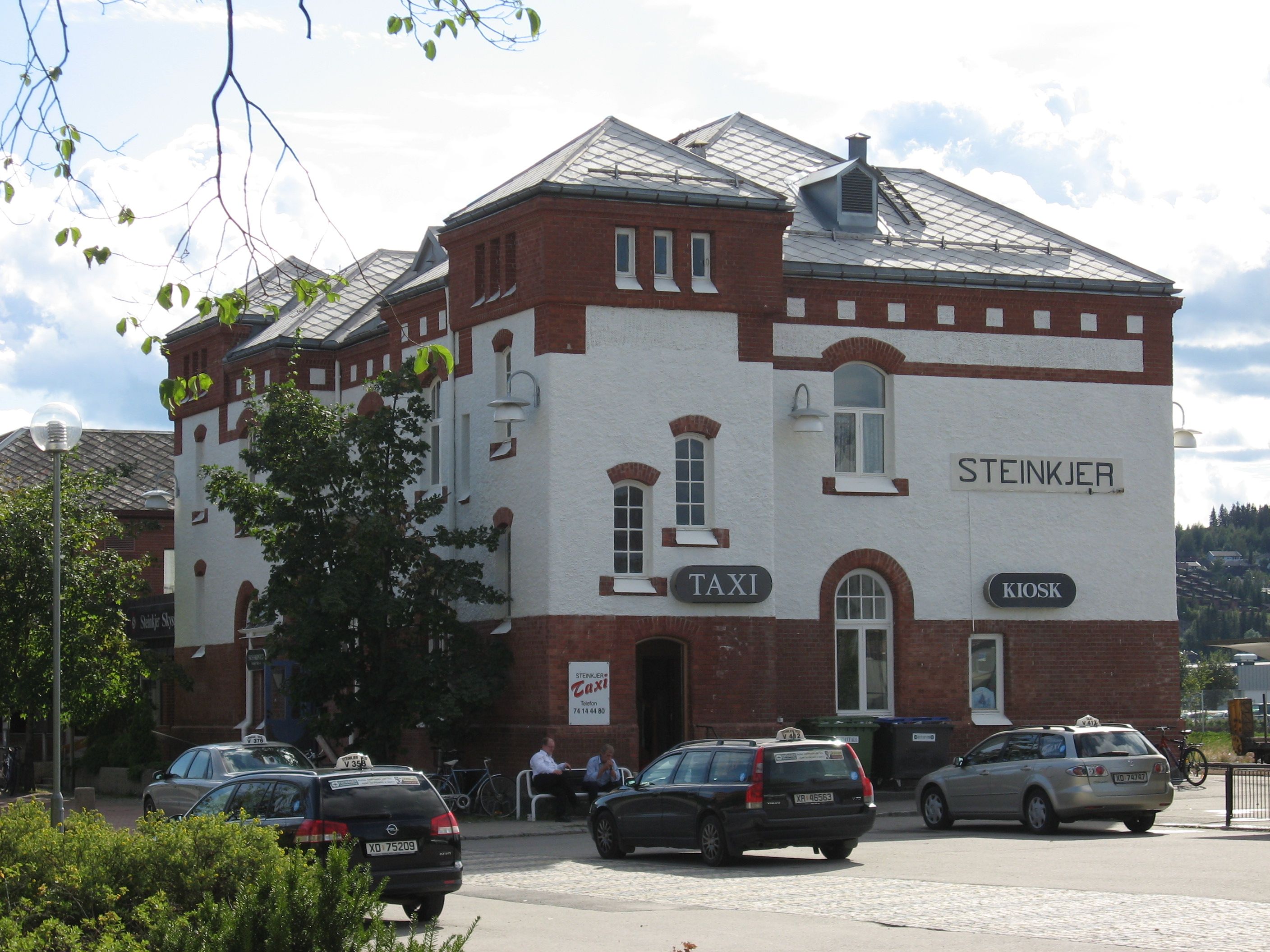 Steinkjer Station, Steinkjer, Norway. 2006-09-02 by Alan Ford